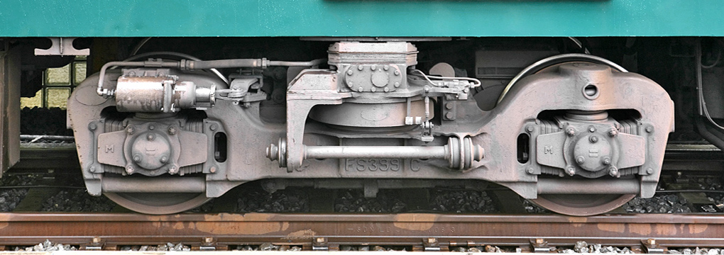 Sumitomo Metal Industries type FS-399C bogie truck of Keihan 2600 Series EMU ( 2617 ).